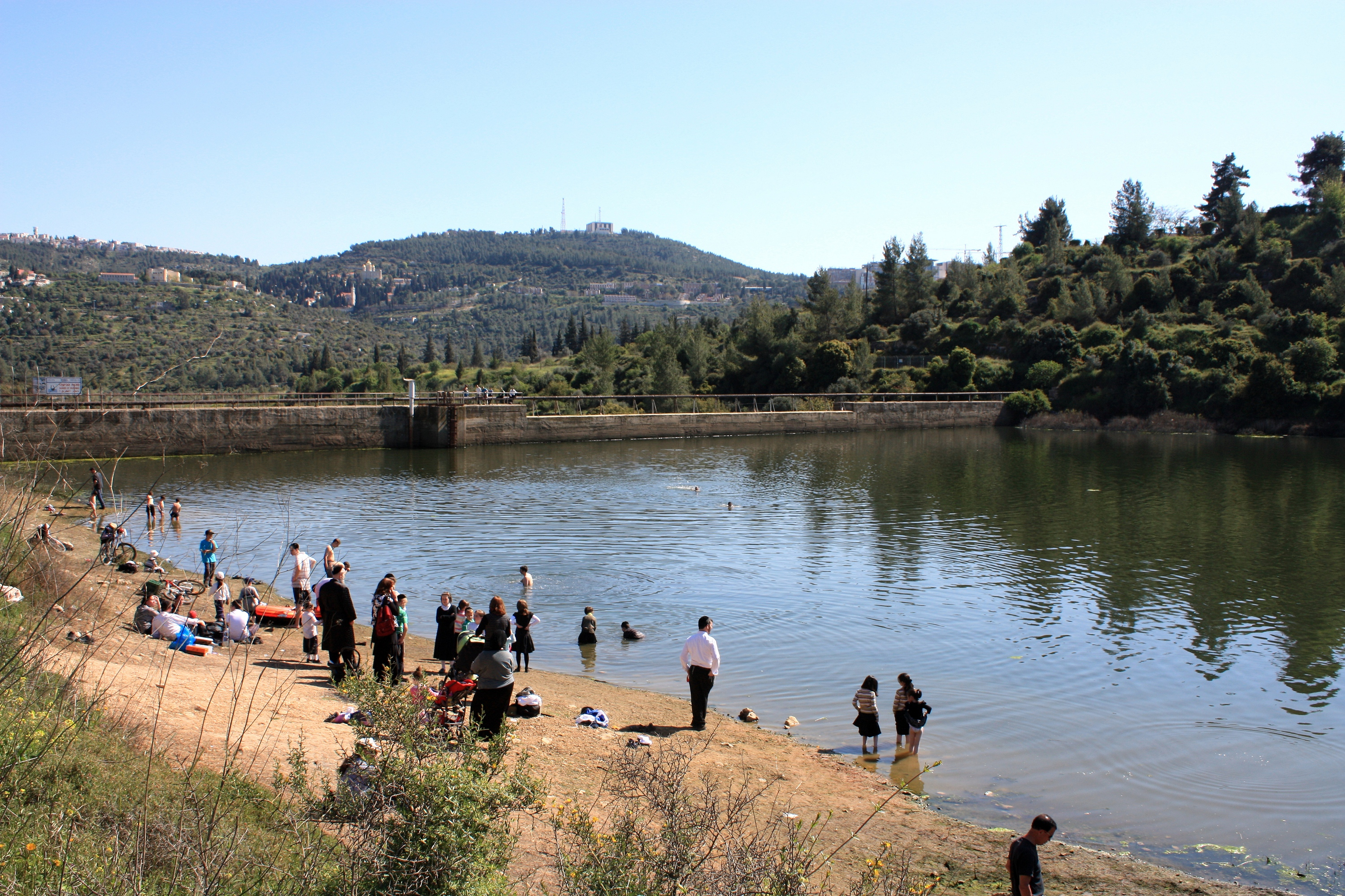 Beit_Zait_reservoir during the passover vacation